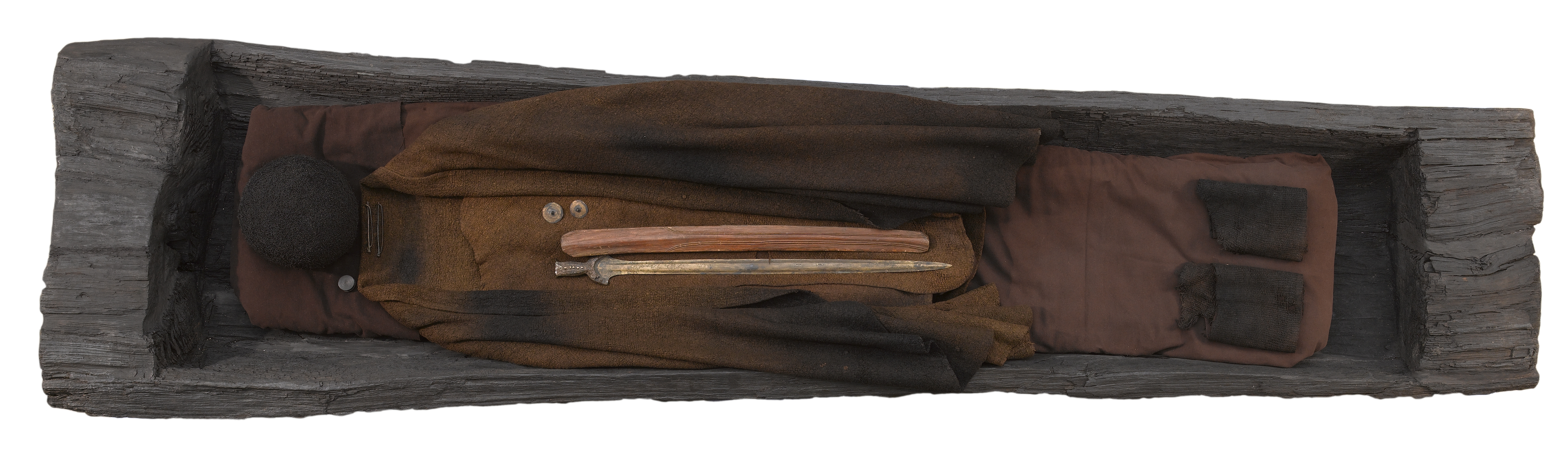 Oak log kist in Denmarks national museum